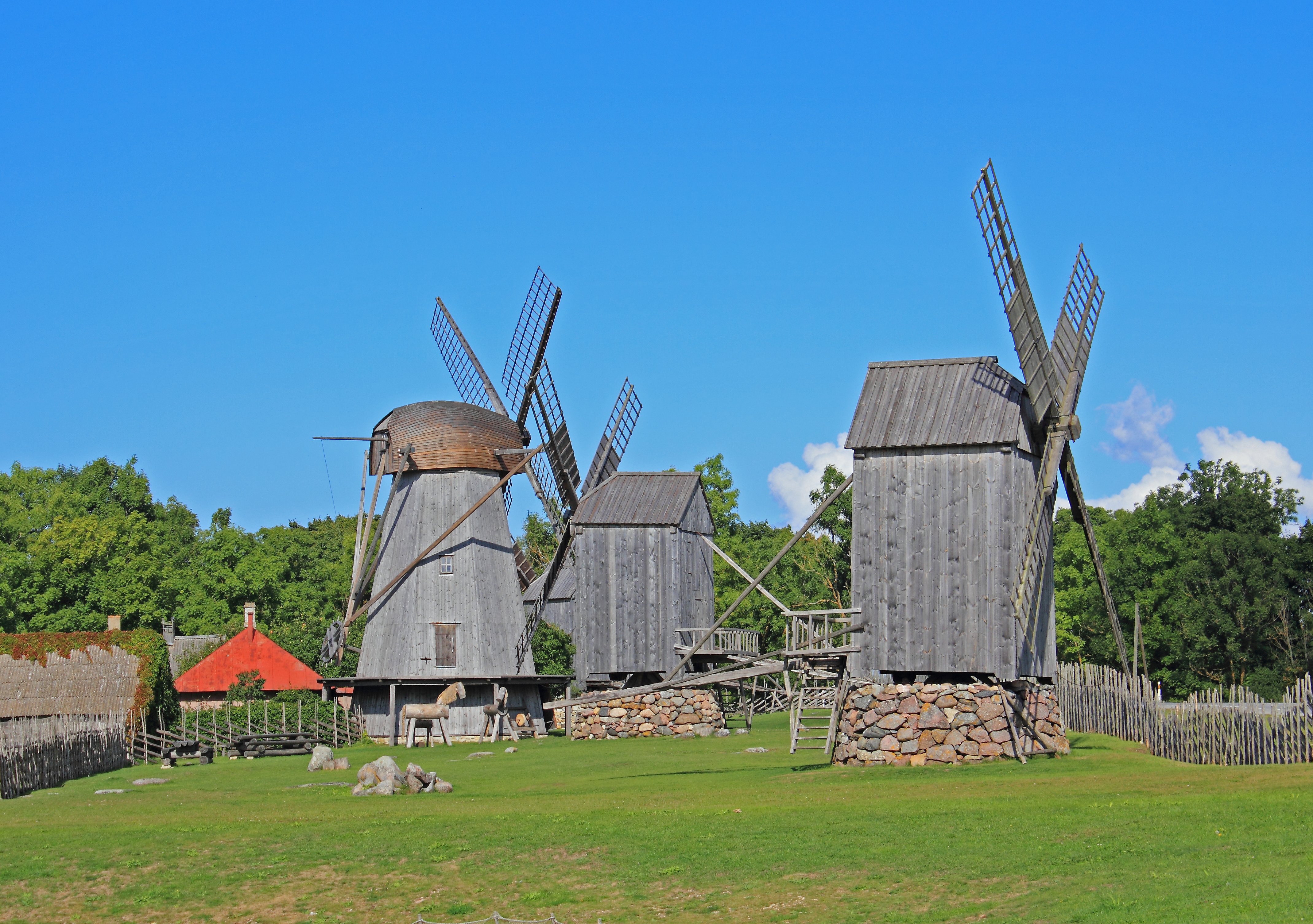 Windmills on the hill of Angla. Saaremaa, Estonia.